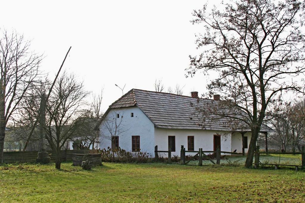 Tiszabökény-Farkasfalva tájmúzeum, a régi falusi iskola és tanári lak